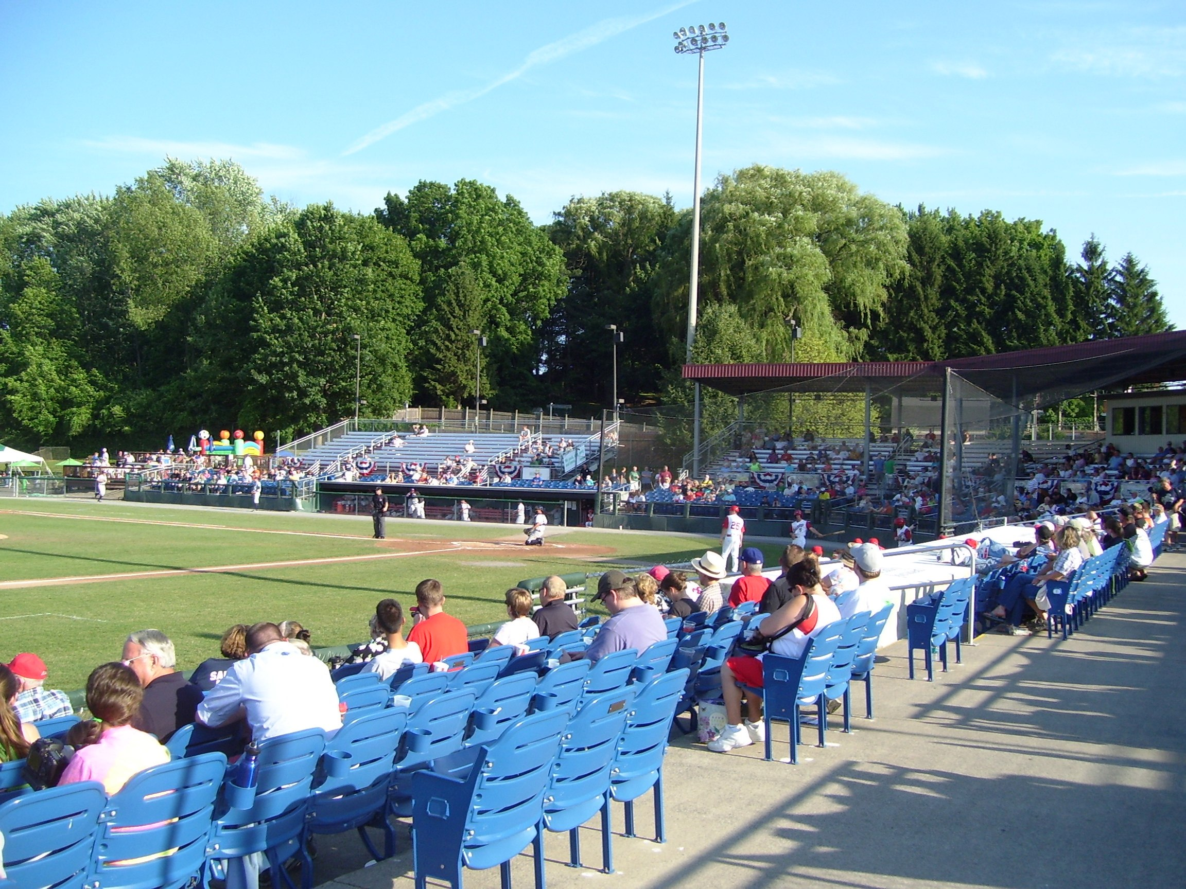 A game at Falcon Park on North Division Street in Auburn, New York between the minor league Auburn Doubledays and the Hudson Valley Renegades of the short-season A-class New York-Penn League.